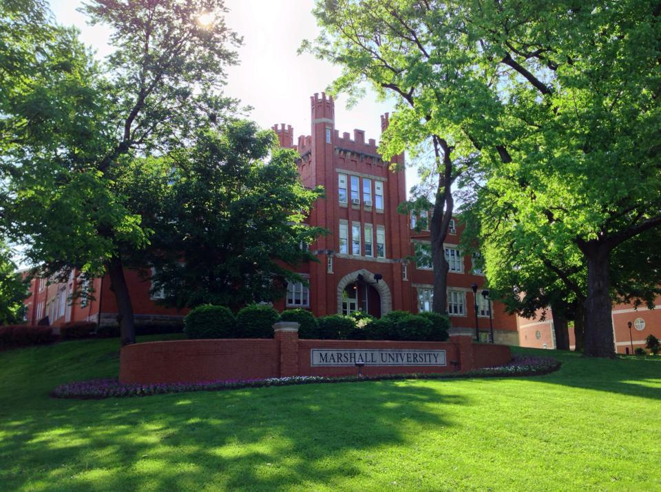 The Old Main Building on the campus of Marshall University in Huntington, West Virginia. Looking east from Hal Greer Blvd on May 12, 2013.